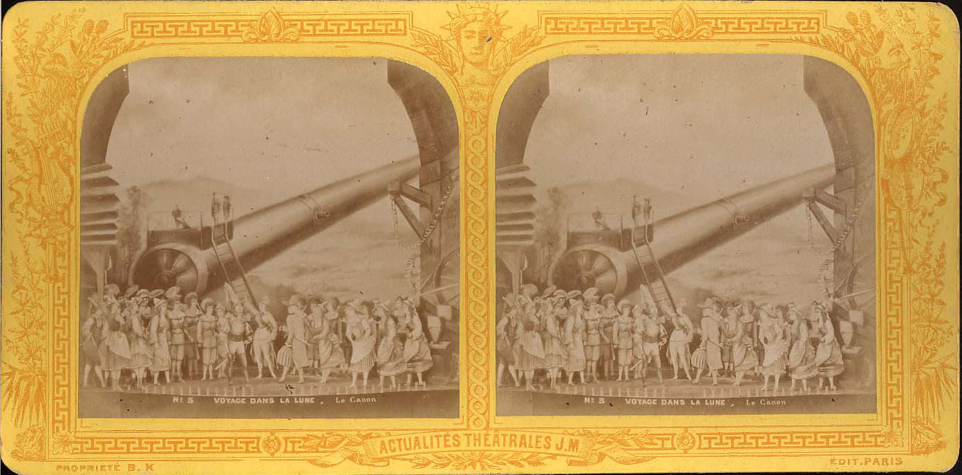 "No. 3 - Le Canon." One in a set of twelve stereo cards showing scenes from Offenbach's 1875 operetta Le voyage dans la lune.